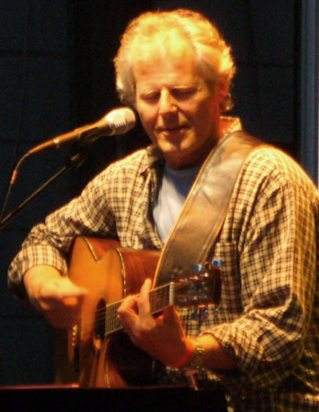 Georg Danzer in concert with Austria3. Imst, Tyrol, Austria. Cropped and digitally edited.